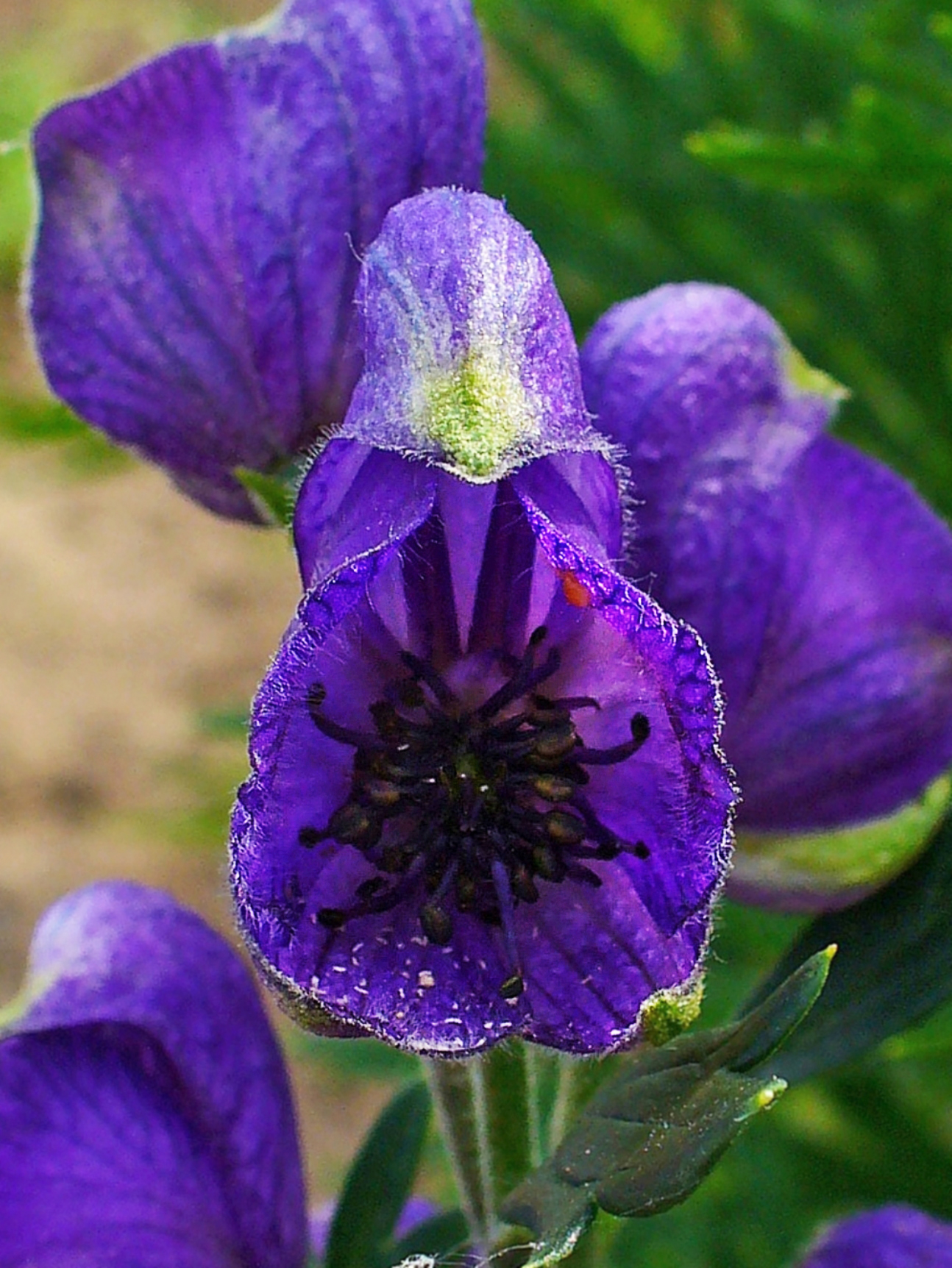 Aconitum napellus, Ranunculaceae, Monkshood, Wolf's Bane, Monk's Blood, Monk's Hood, flower, frontal; ; Garden near Karlsruhe, Germany, not geocoded for private reasons.